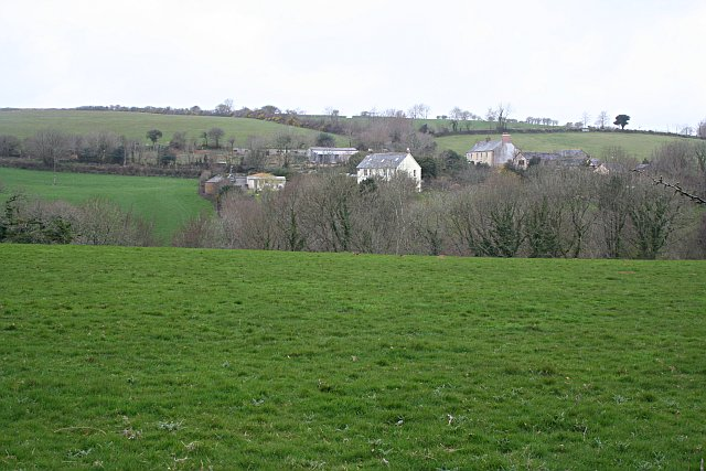 Penquite A small group of houses at the head of a steep valley running down to Lostwithiel.